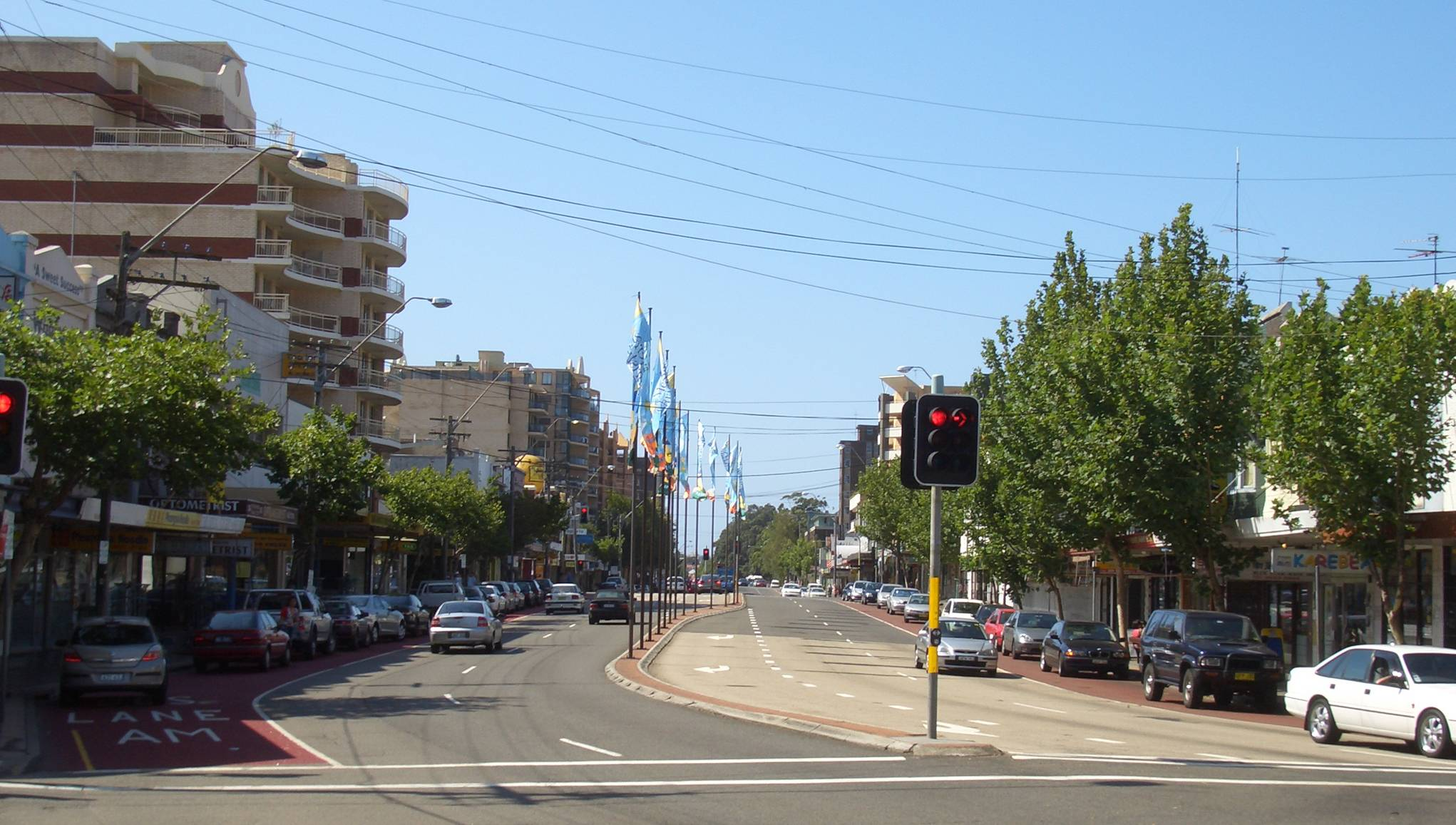 Anzac Parade, Sydney Kingsford